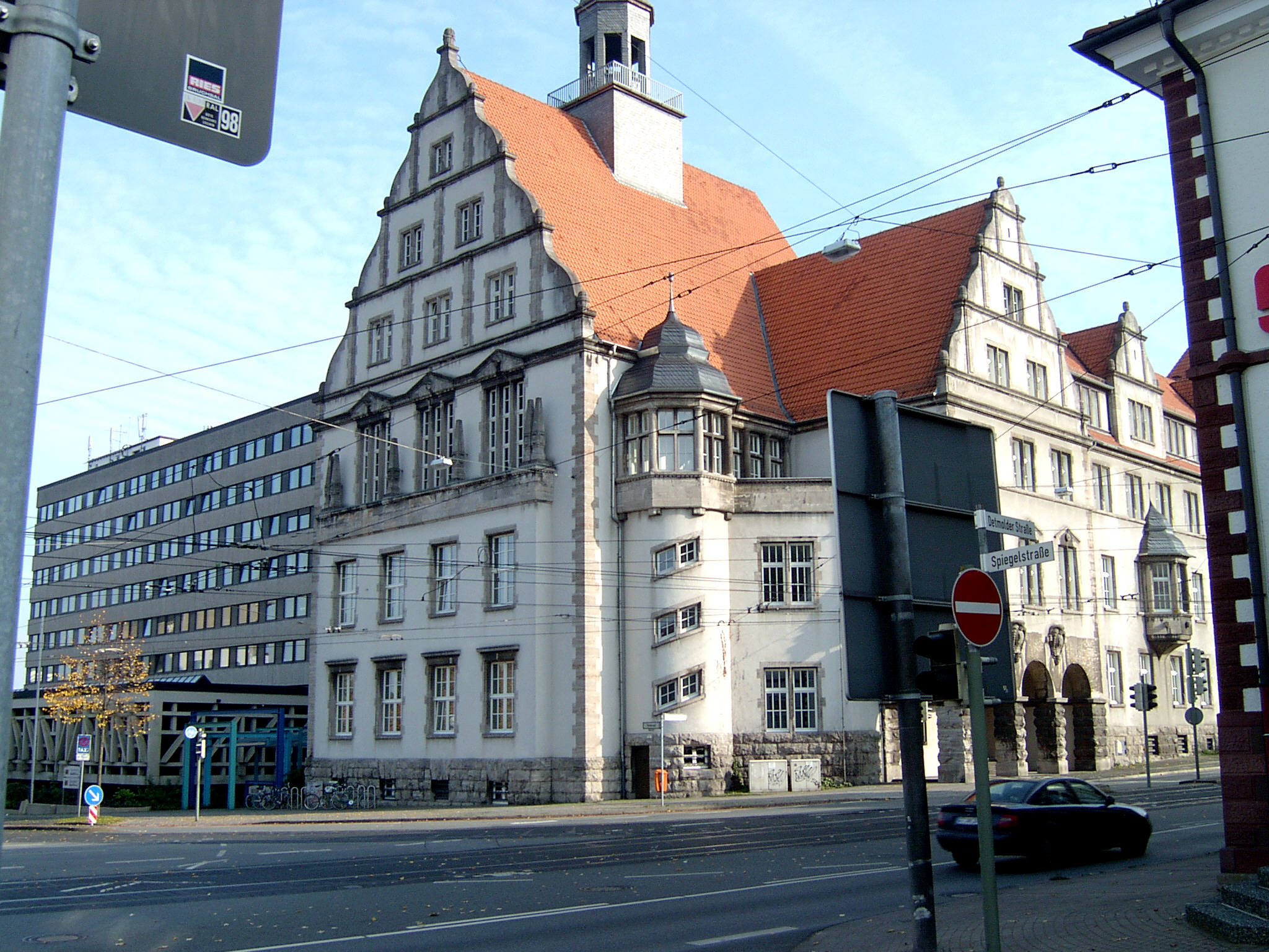 Bielefeld, Germany: Regional court